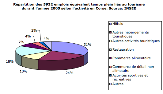 Touristic employment in Corsica